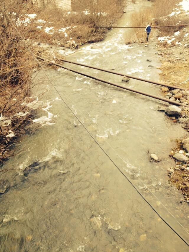 Rrjedh lumi ne Has